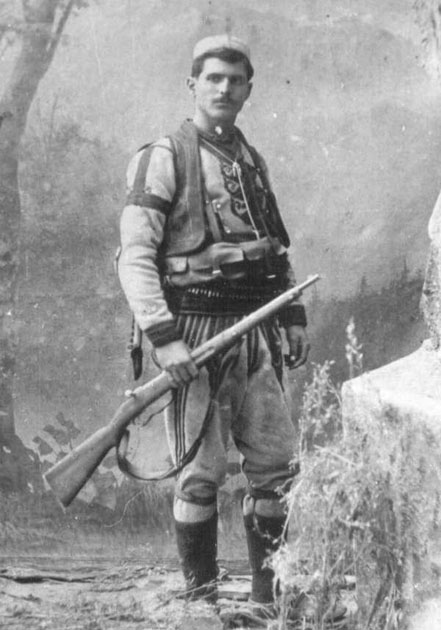 Petar Yurukov